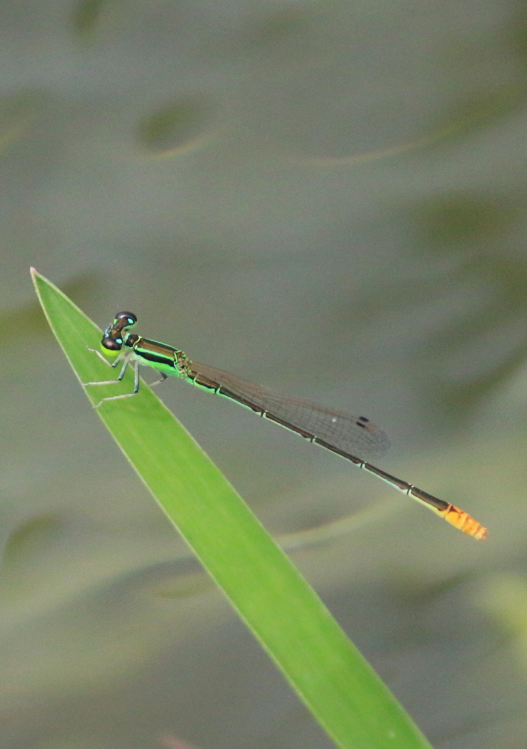 Agriocnemis pygmaea, Pigmy Dartlet.